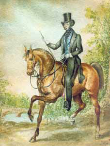 Russian poet Alexander Pushkin (1799-1837)